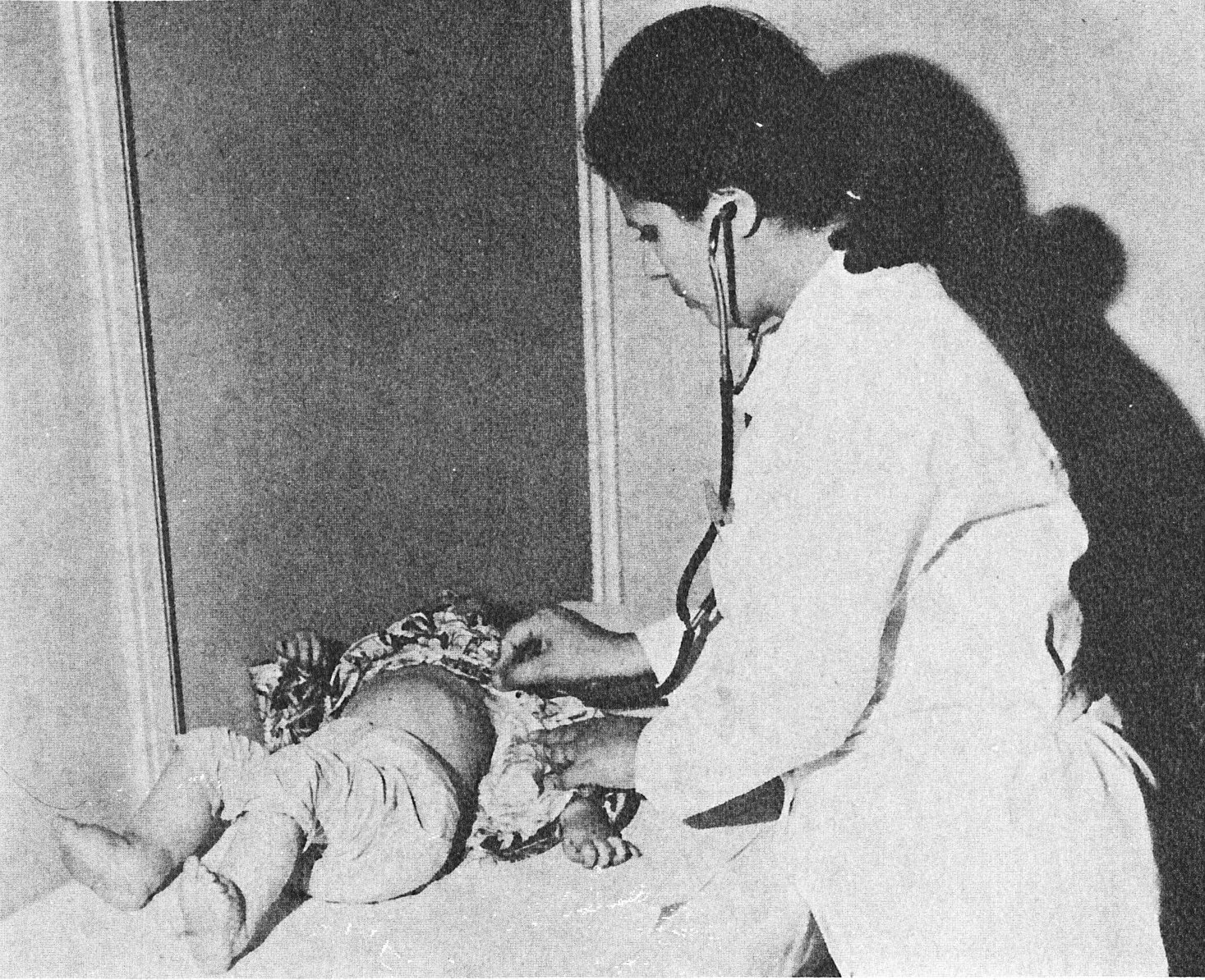 Pediatrics, hospital Tehran, Iran, 1972